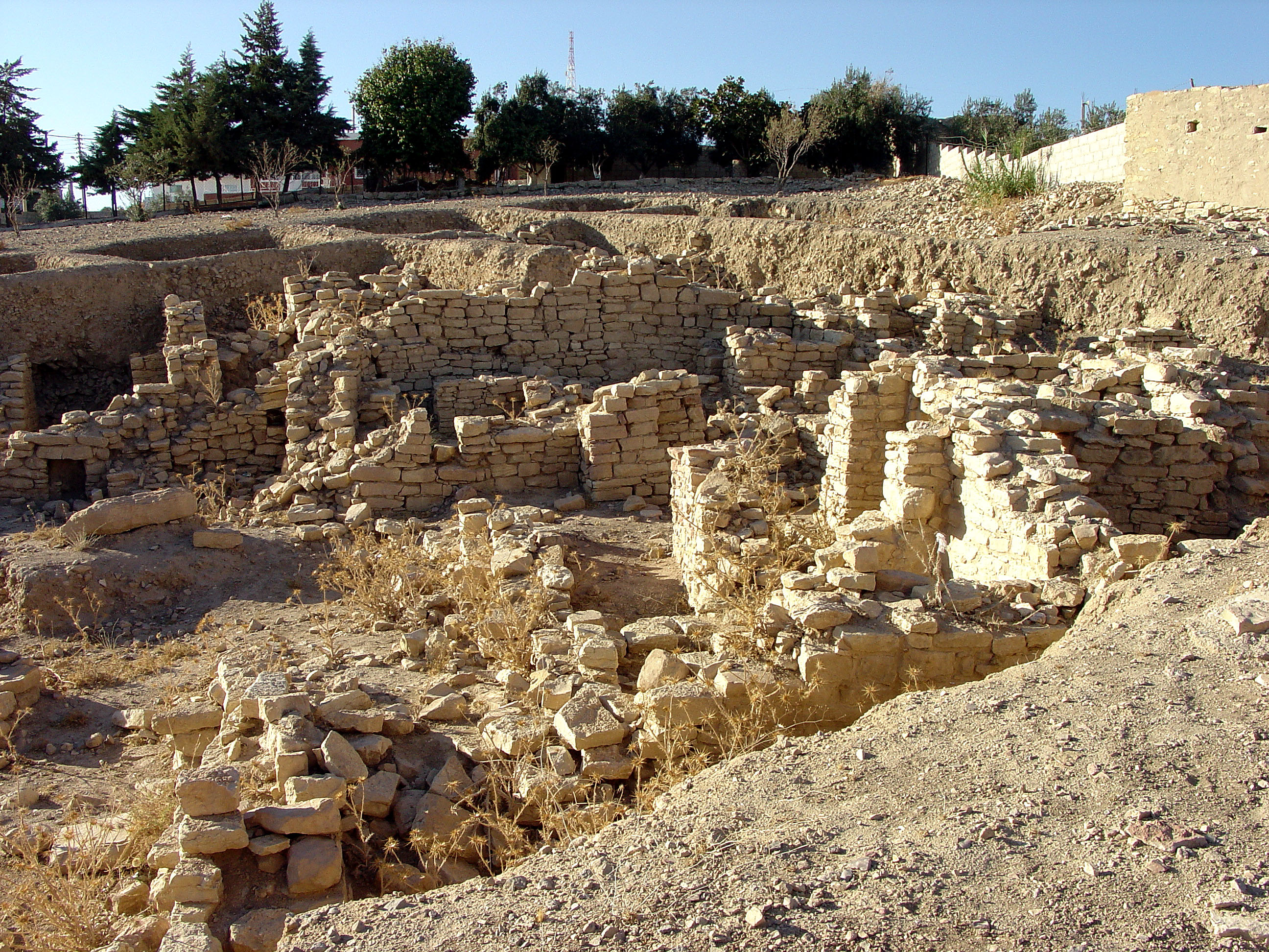 Pre-pottery B Neolithic village of Basta, Jordan